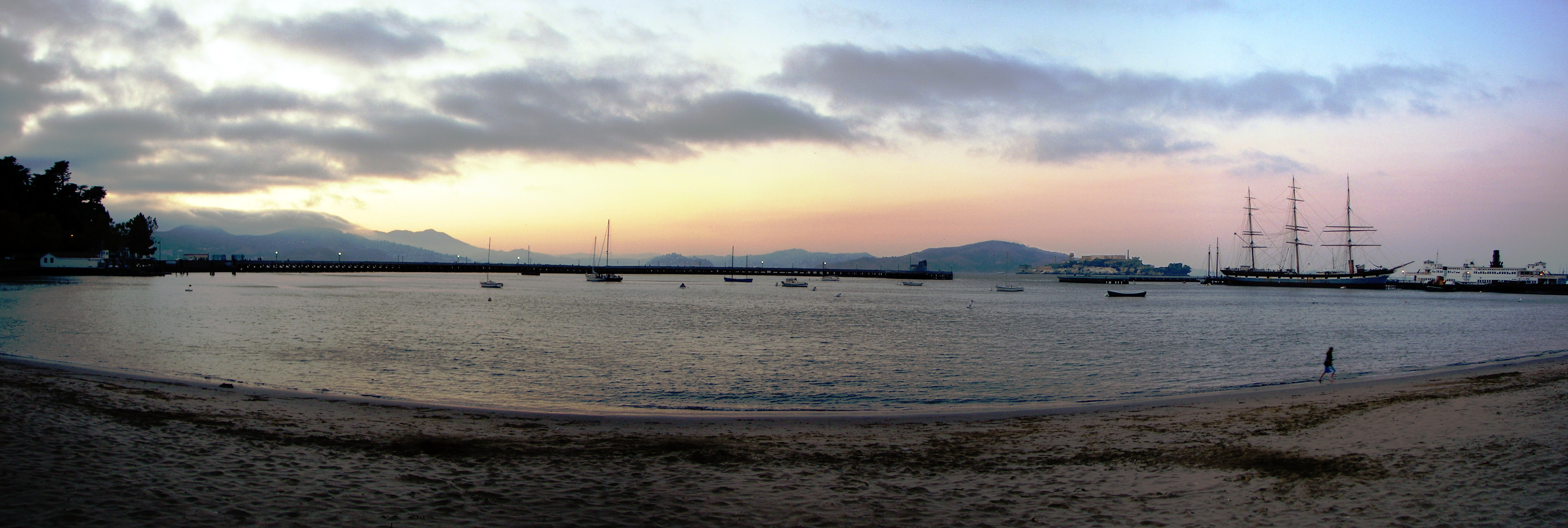 Photo of the lagoon of the San Francisco Maritime National Historical Park around sunset. From left to right: hills in Marin County, the municipal pier, Angel Island, Alcatraz, and sailing ship Balclutha. This image is a stitching of three separate photos, using Autostitch. I performed the GIMP's Equalize command on this image to make it look better (though here and there the colours look a bit funny now).